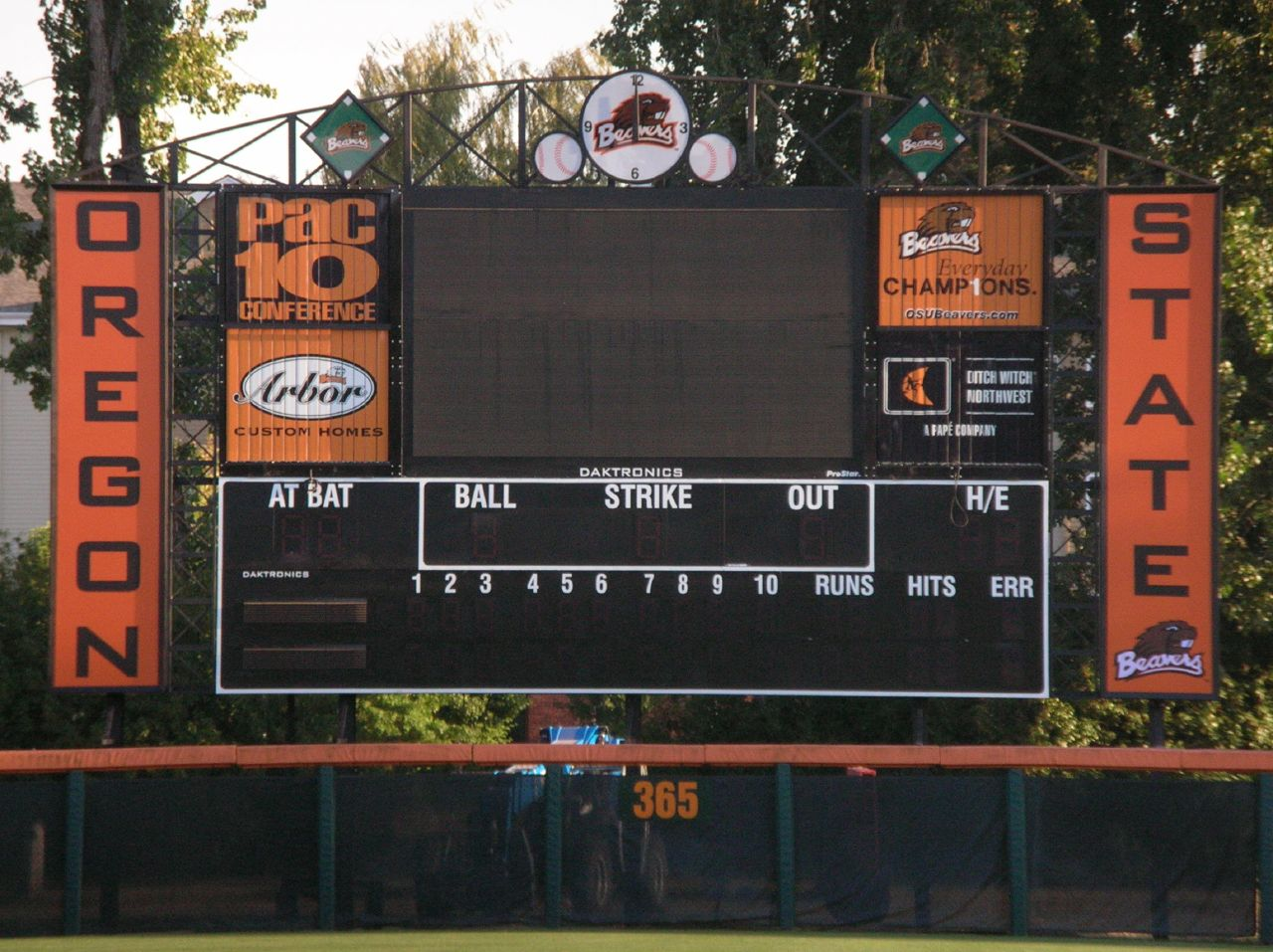 The scoreboard at Coleman field, installed Summer 2006.